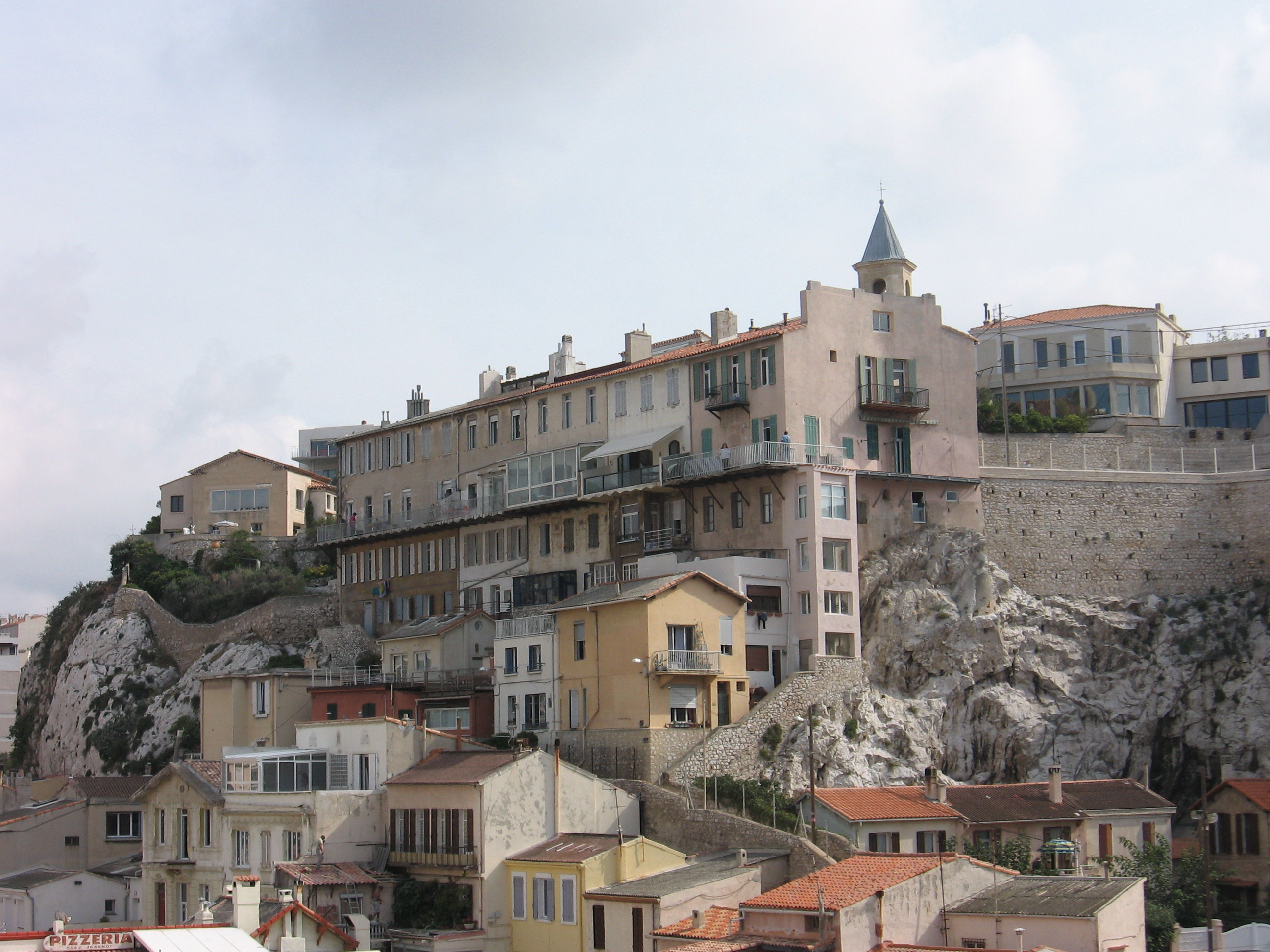 Vallon des Auffes